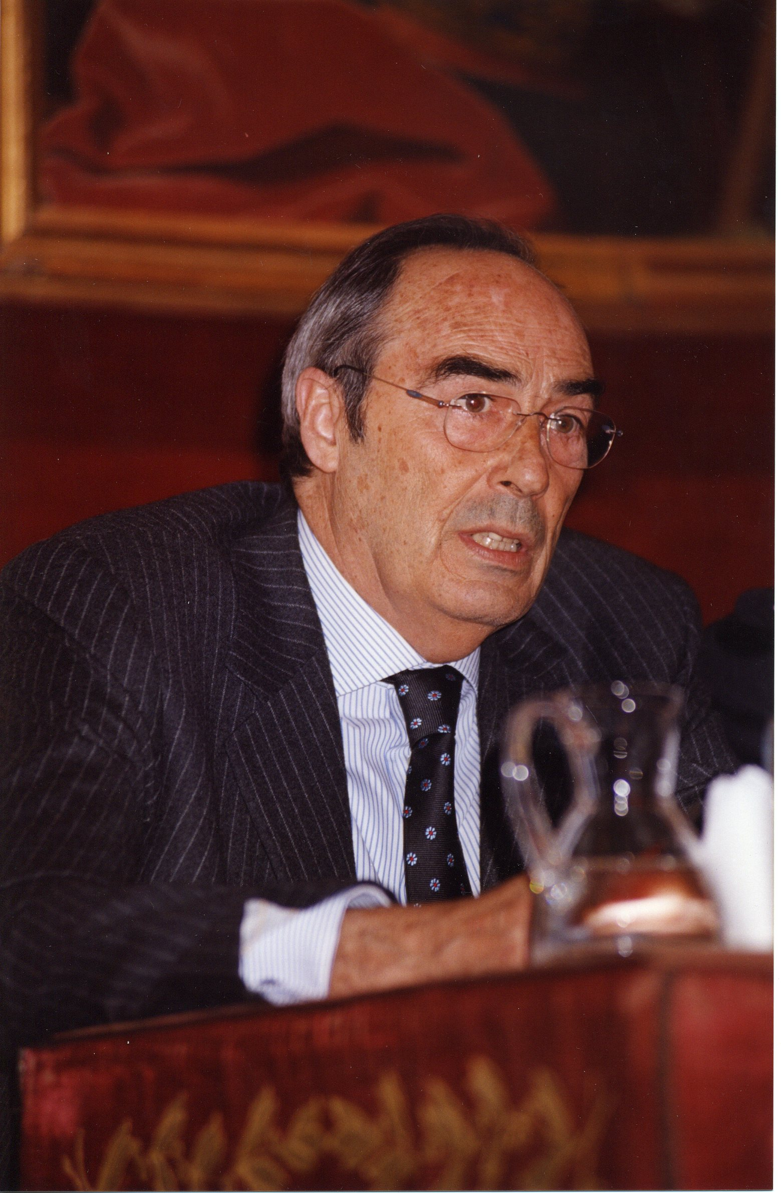 Francisco Yndurain Portrait